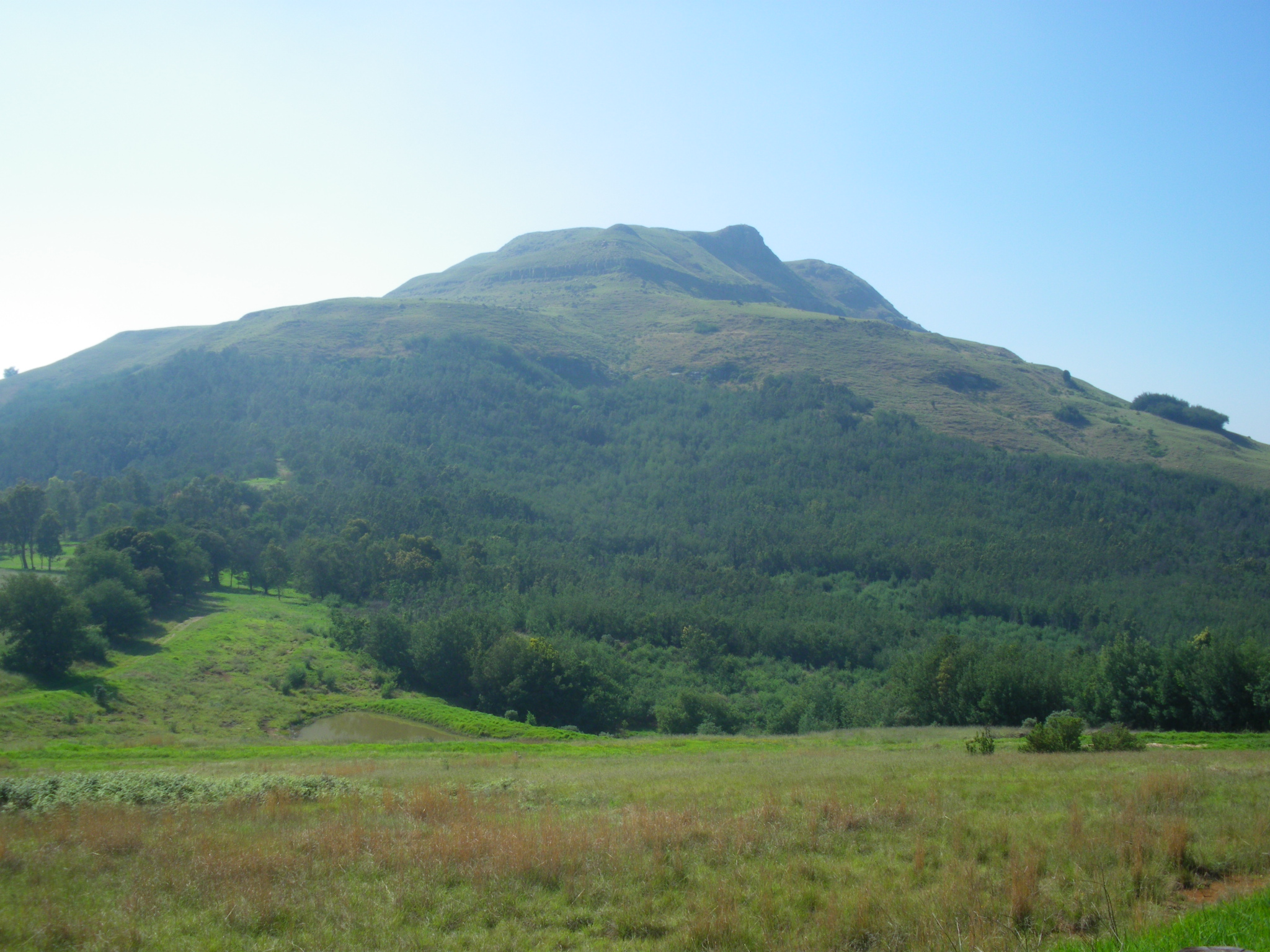 Climbing Majuba Hill. Seen from the North, Natal, South Africa